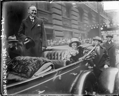 President Calvin Coolidge visits the Historical La Salle Hotel in Chicago, 1925